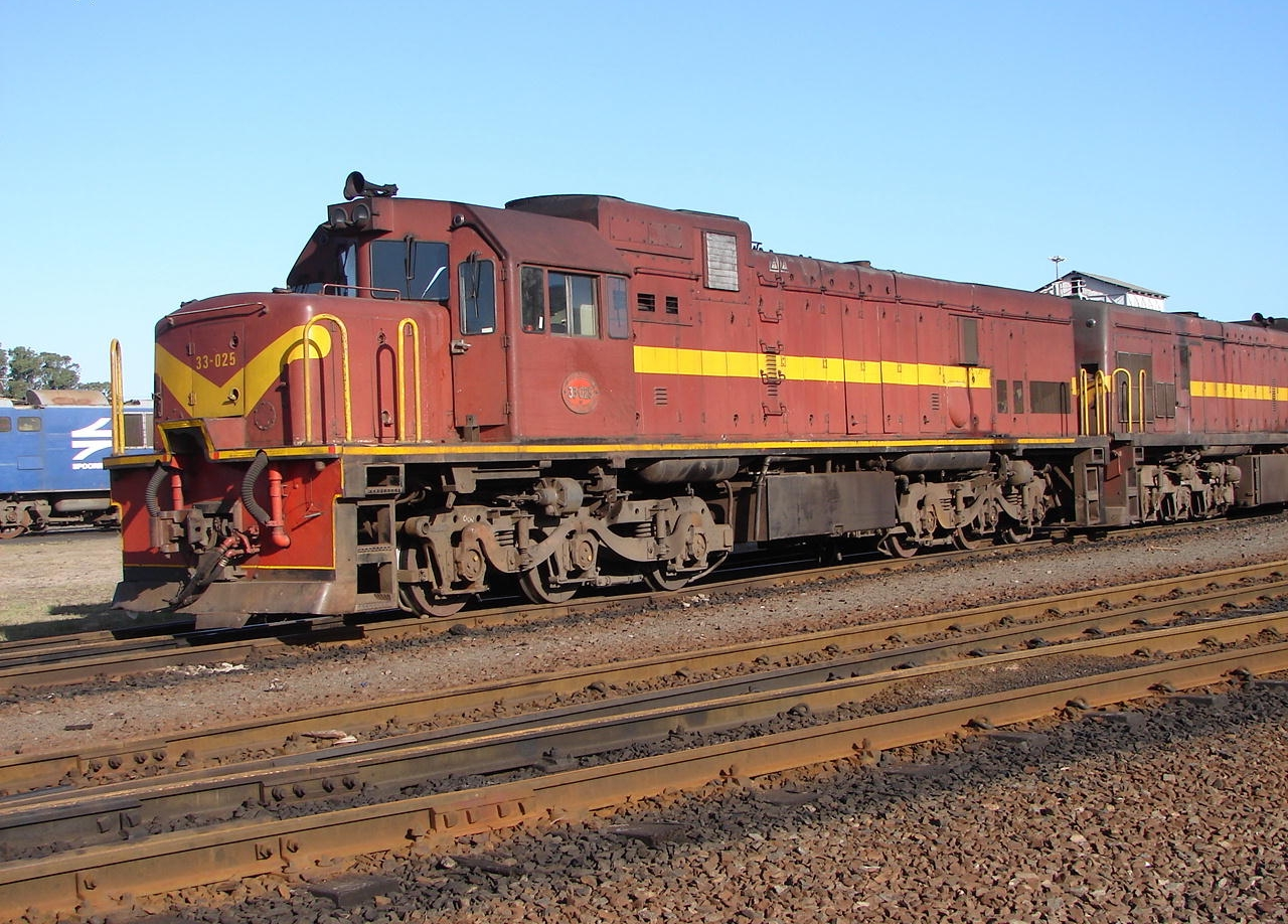 South African Class 33-000 33-025 Builder's Number: GE 35481 Type: GE U20C Location: Bellville, Cape Town